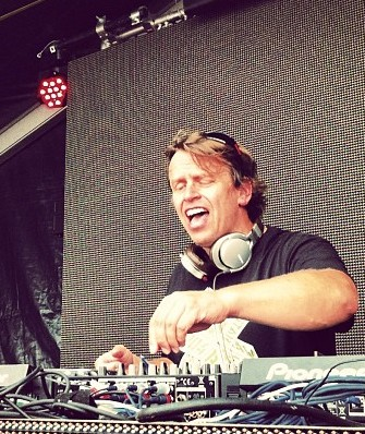 Chicane @ Luminosity